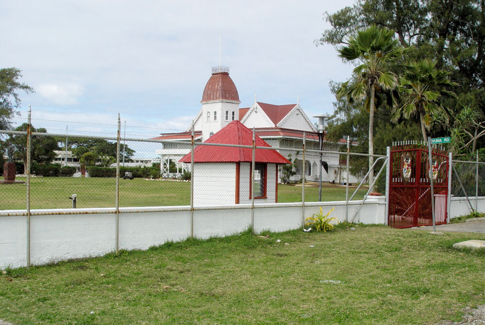 Royal Palace, Nuku'alofa, Tonga